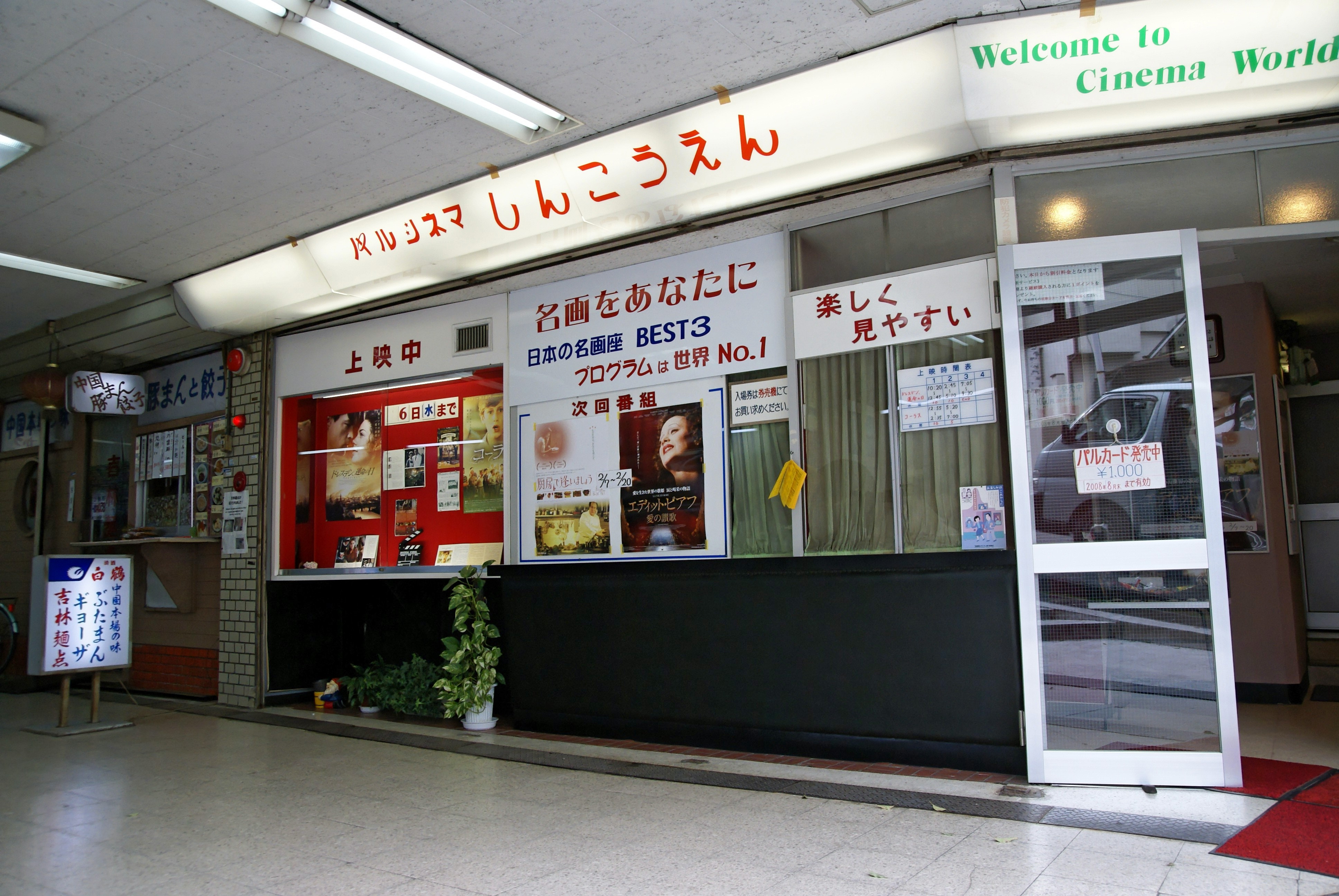 Pal-cinema-shinkoen in Kobe, Hyogo prefecture, Japan